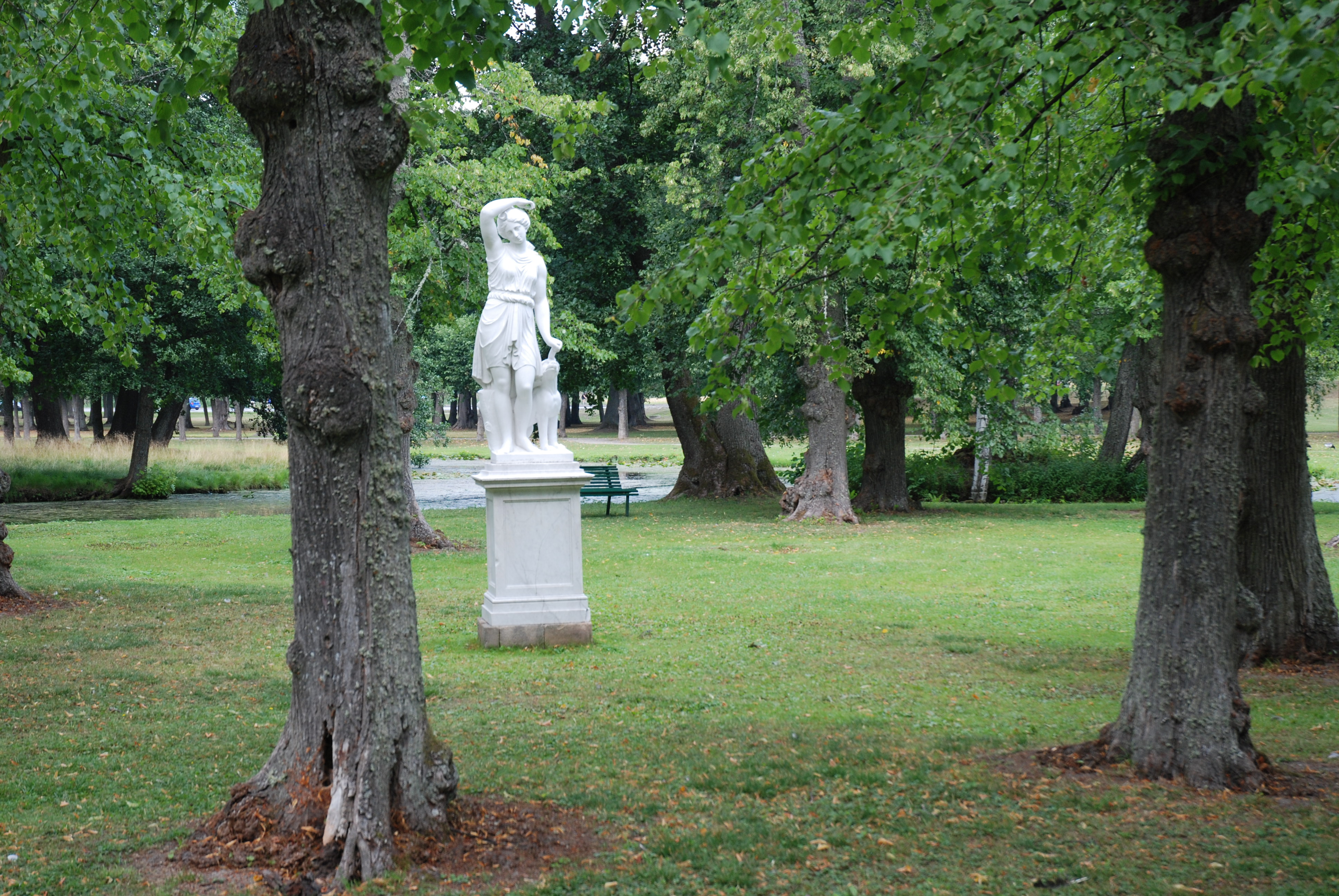 Marble sculpture Diana at Dianas holme (Islet of Diana) in Drottningholm Castle Garden